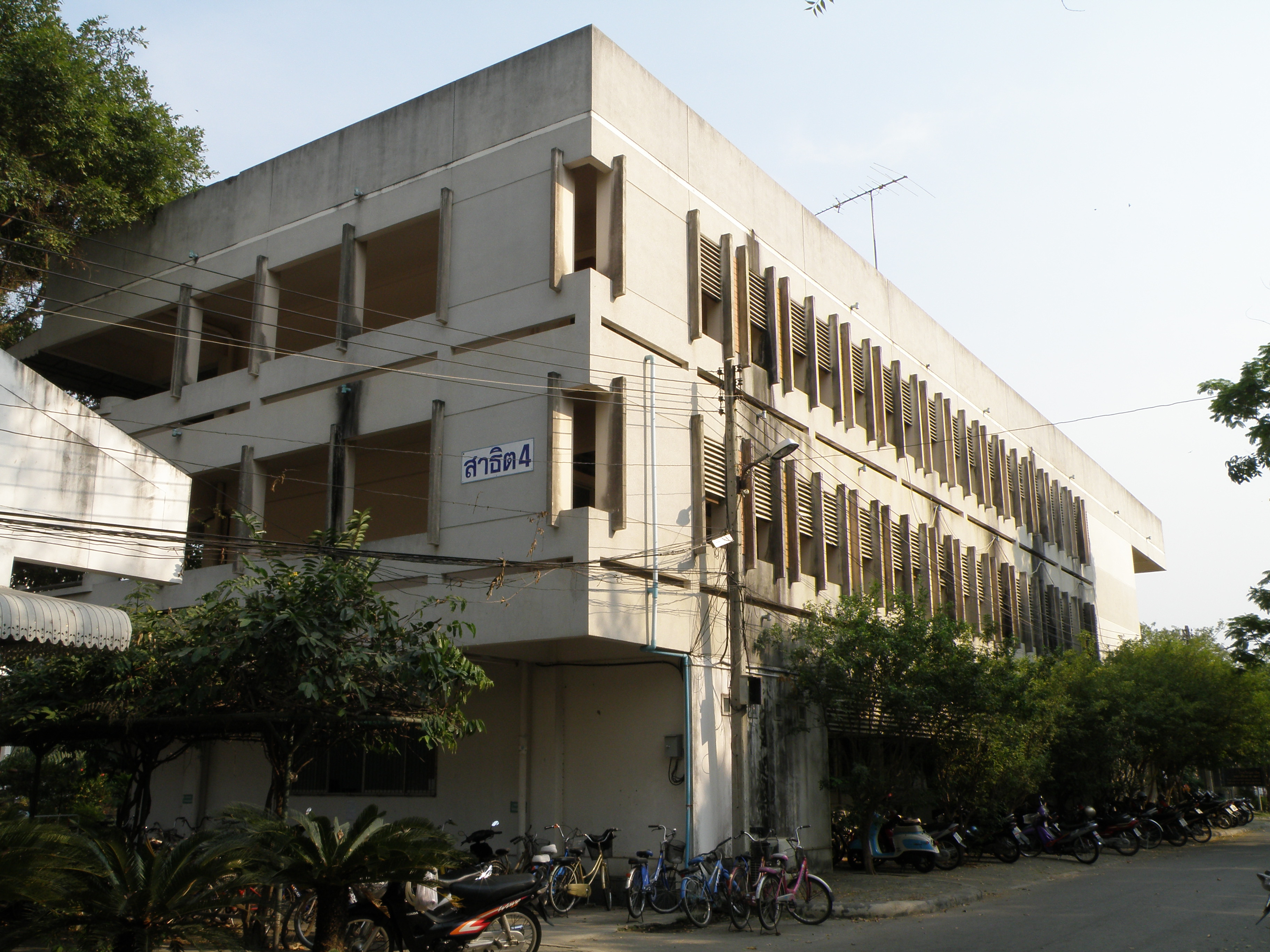 "The Demonstration School of Silpakorn University", Nakhon Pathom